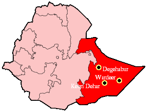 Map of the Ethiopian Somali region showing major towns